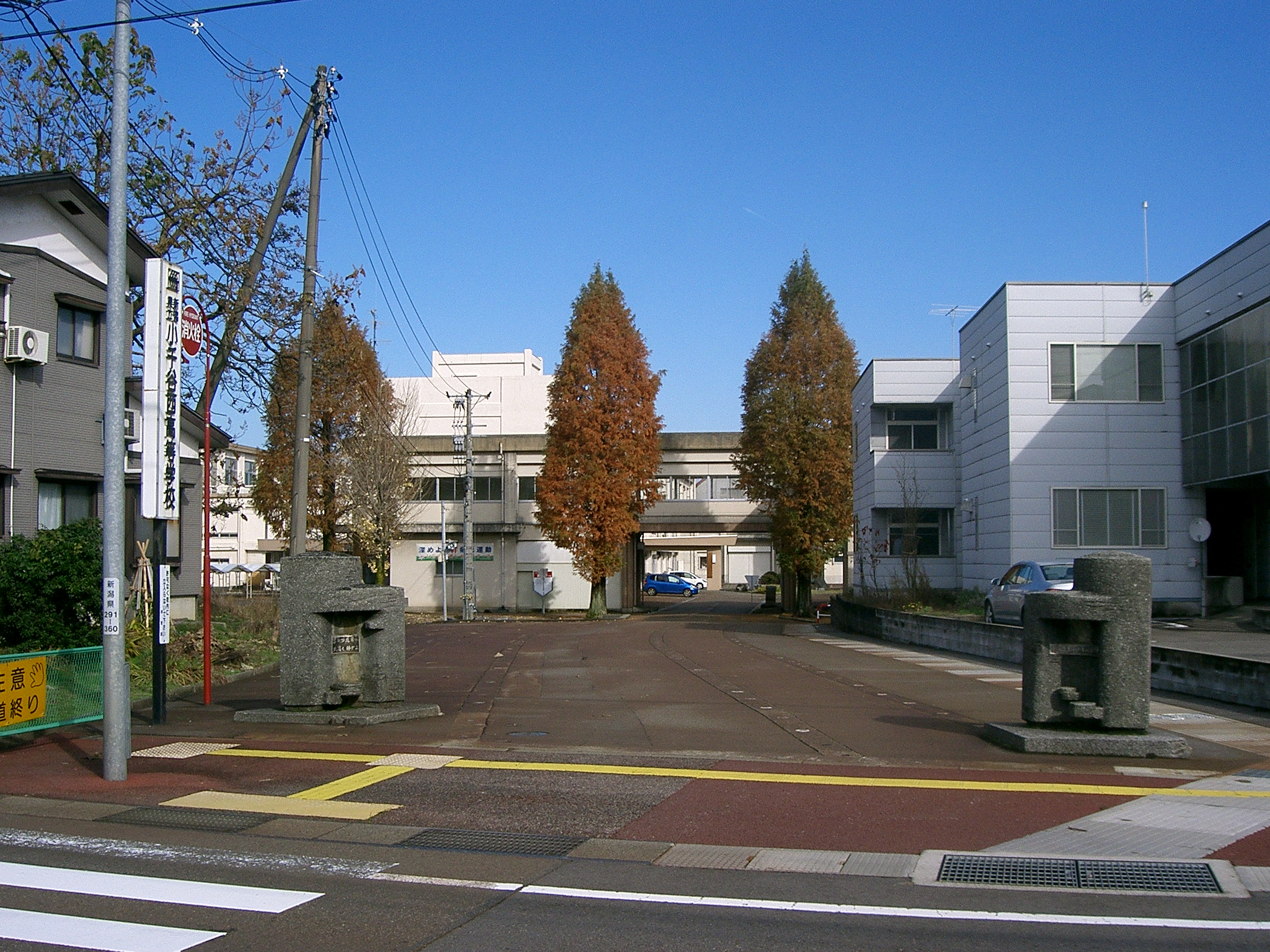 Ojiya Nishi High School in Ojiya city, Niigata prefecture, Japan